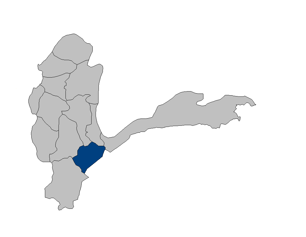 Location map for the Zebak District of Badakhshan Province, Afghanistan. Original map source: Image:Badakhshan districts.png